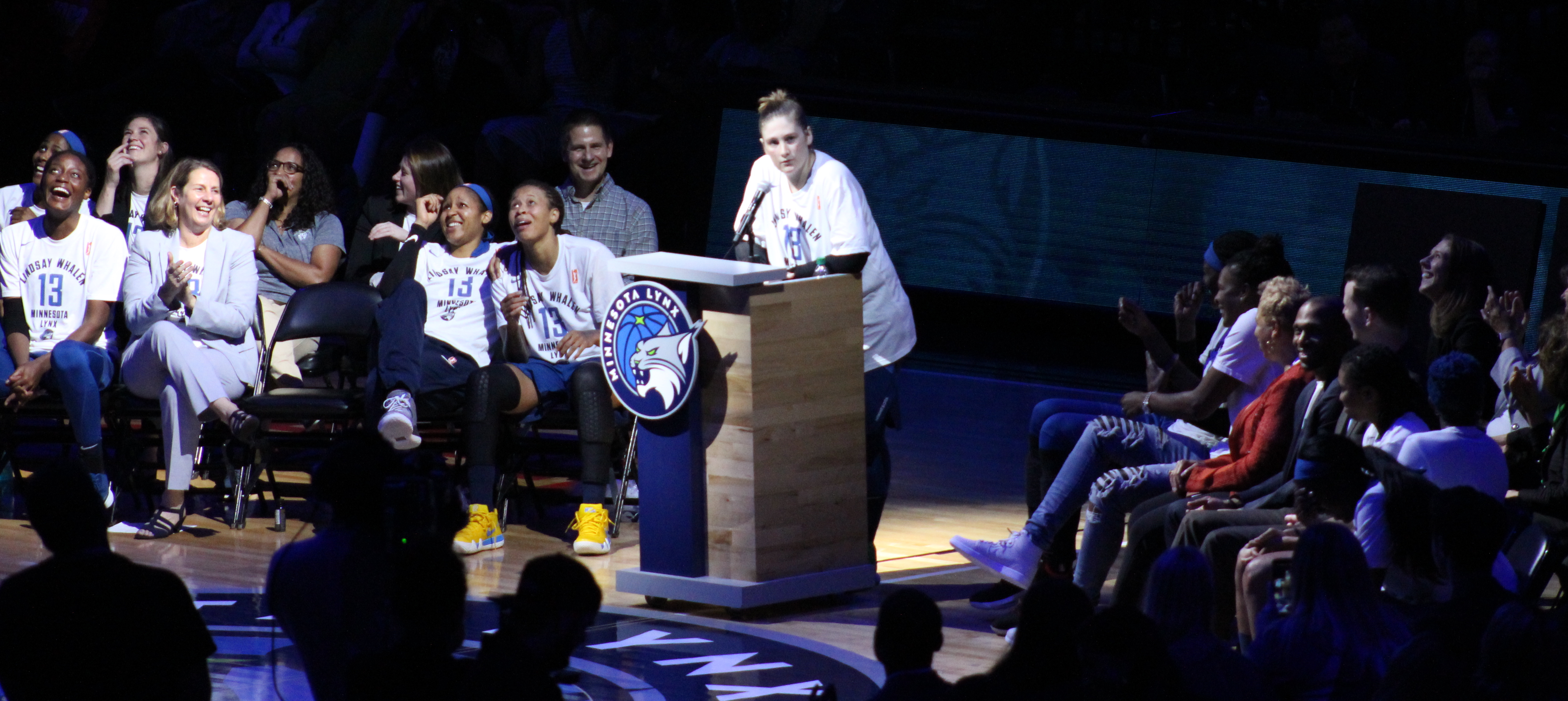 Lindsay Whalen speaks at Lindsay Whalen Day